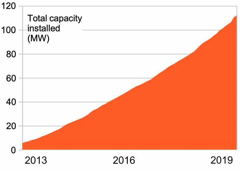 Total solar power New Zealand 2013-2019